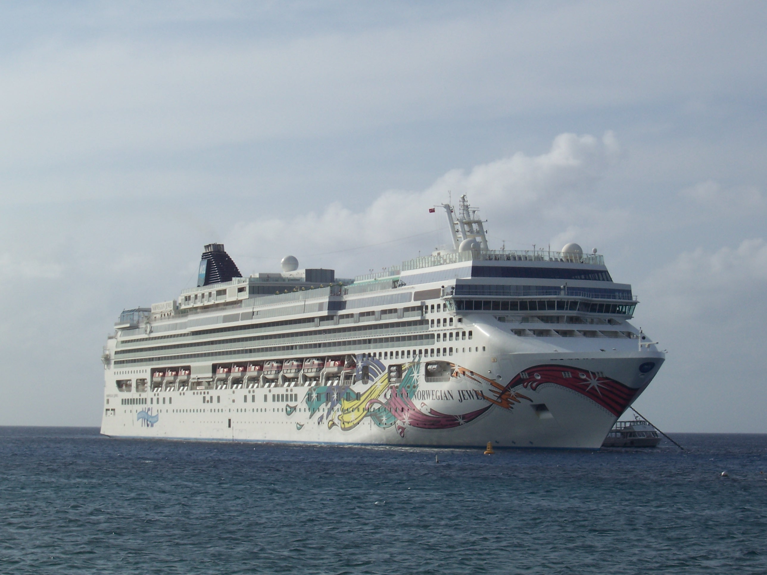 The M/V Norwegian Jewel at anchor in Georgetown, Grand Cayman.